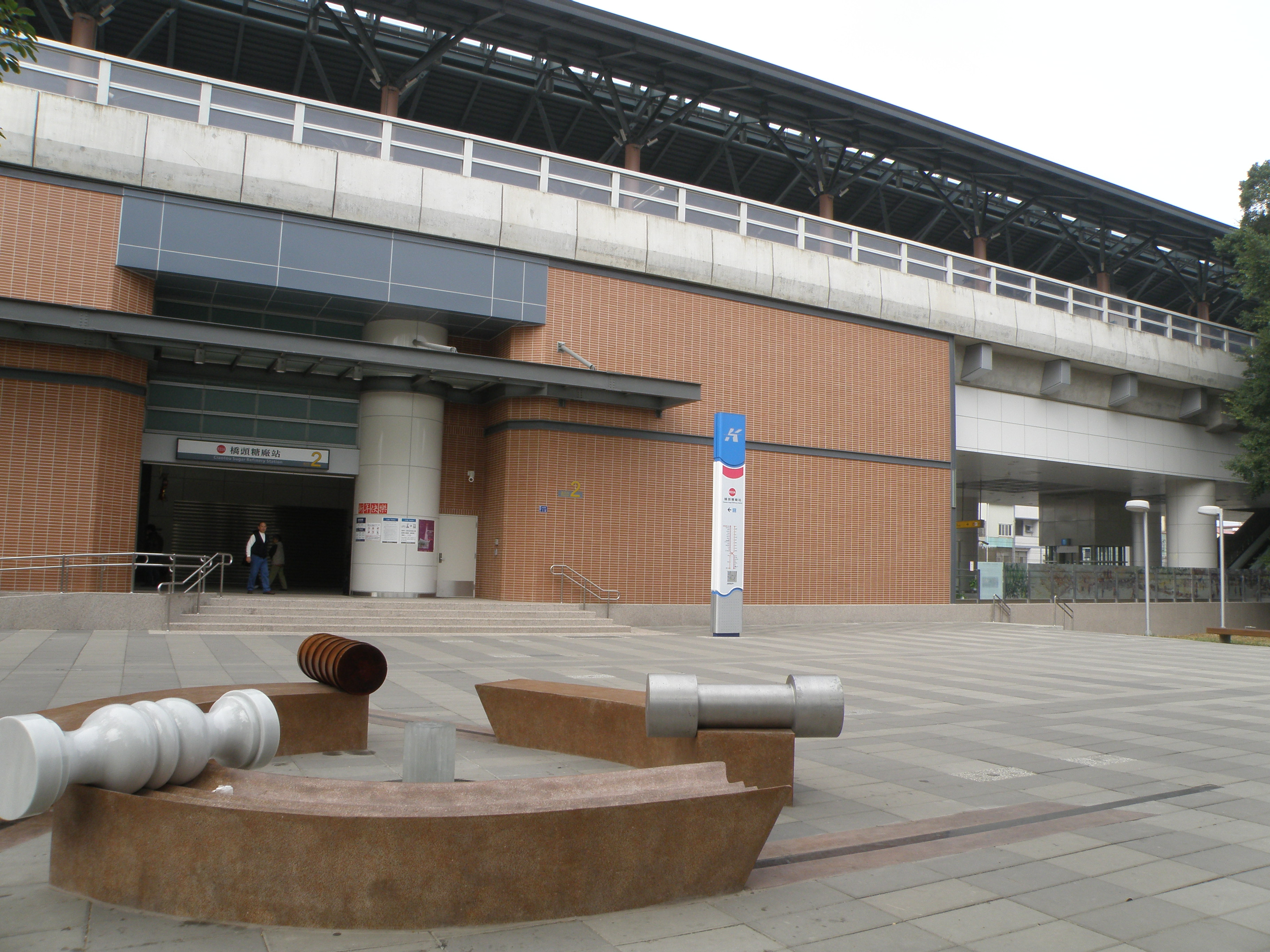 Exit No. 2 of Ciaotou Sugar Refinery Station, Kaohsiung Mass Rapid Transit.